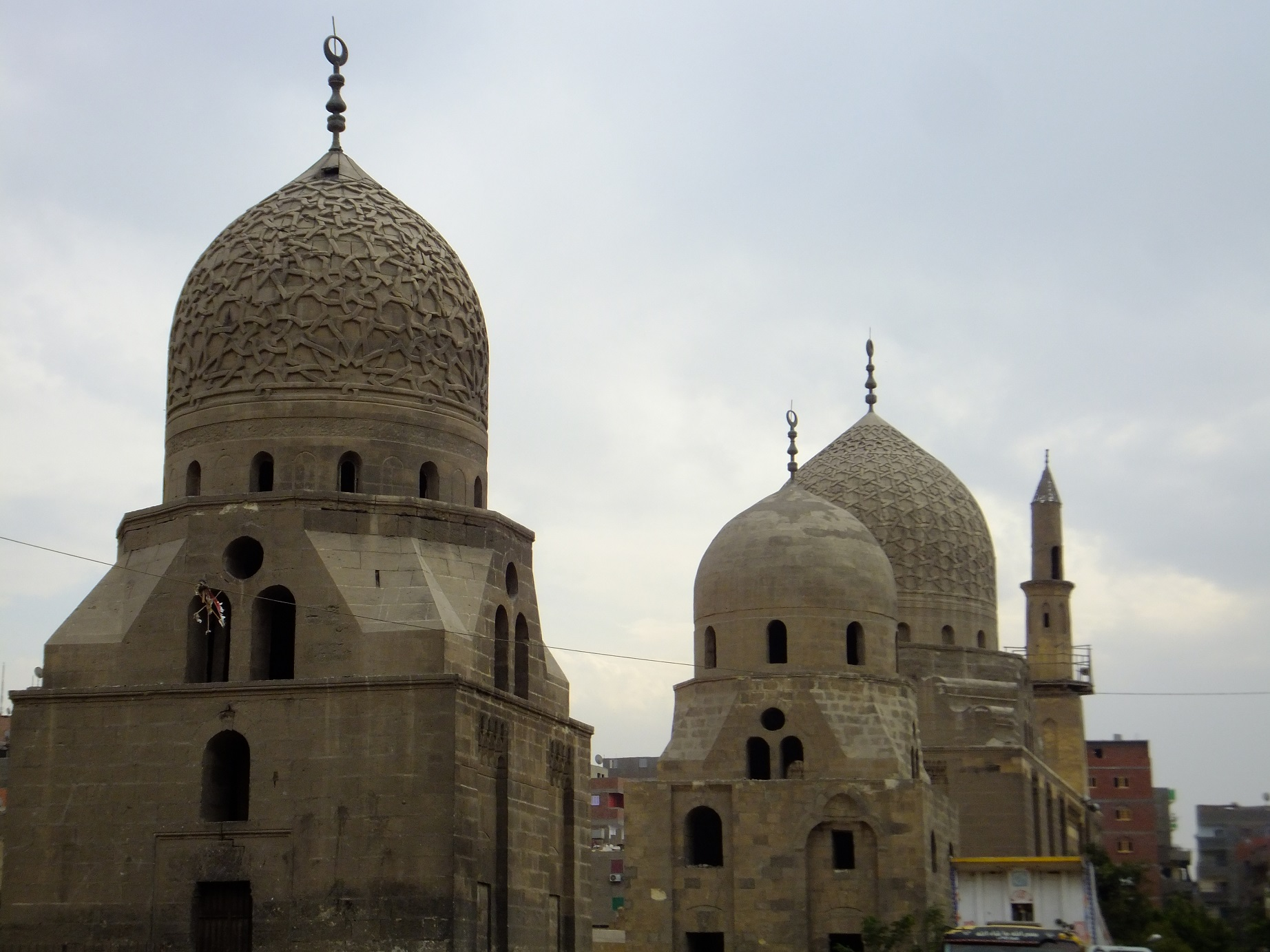 Domes of the tombs in the Complex of Barsbay in the Northern Cemetery, Cairo. From left to right: Tomb of Gani Bak (one of Barsbay's amirs), Tomb of Qurqumas (originally located in front of al-Hakim Mosque but transferred here in 20th century), and royal mausoleum of Barsbay.